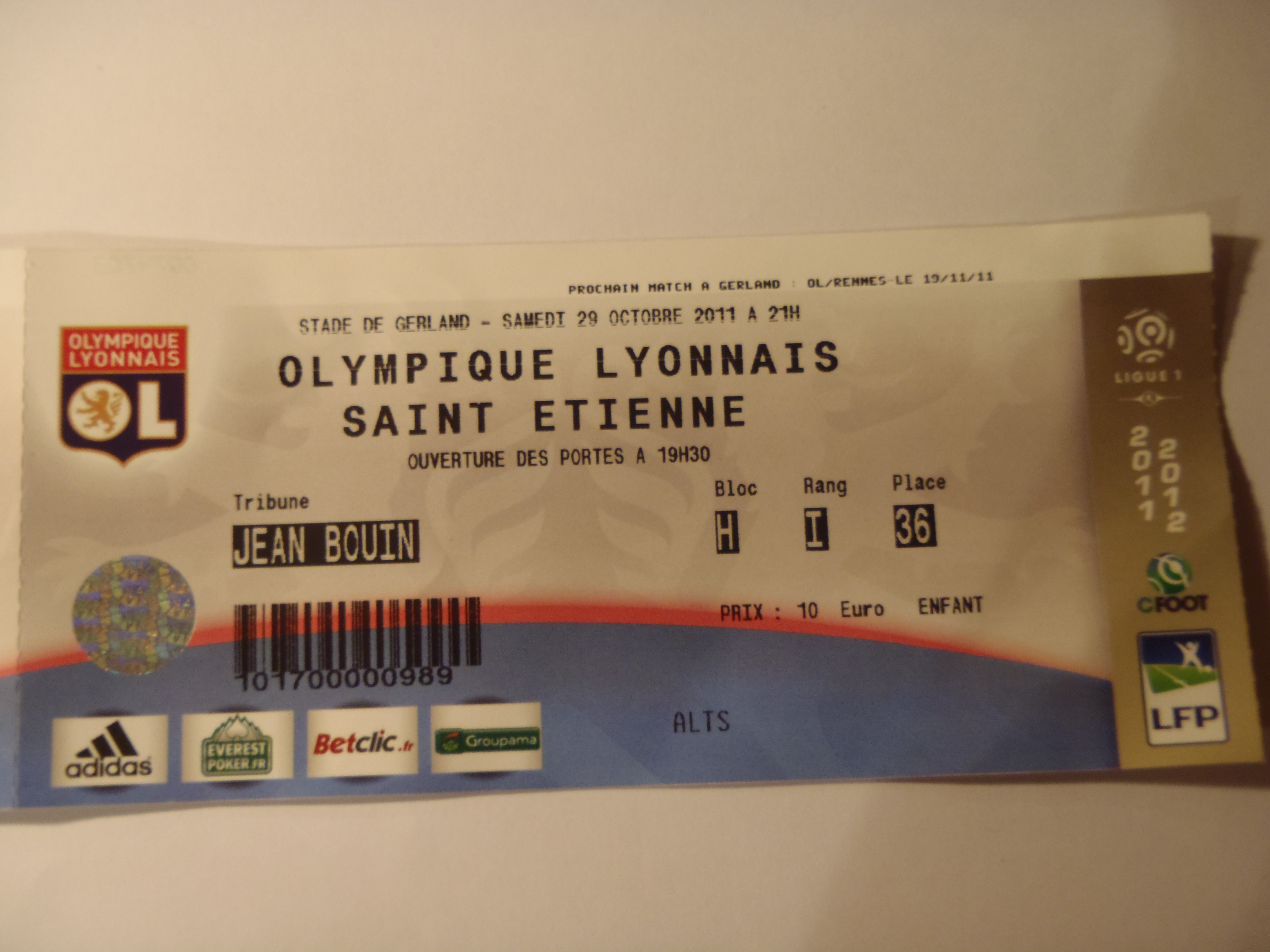 Ticket to football match Olympique lyonnais - AS Saint-Étienne (30/10/2011)